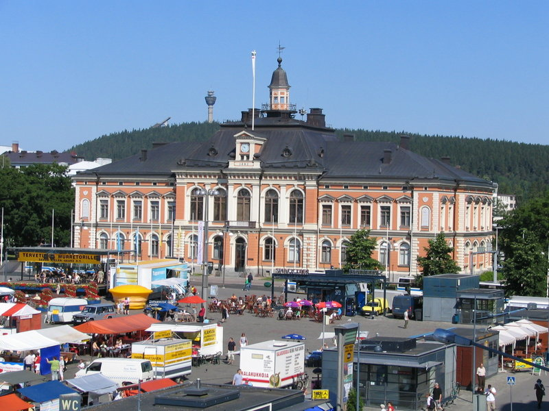 Kuopio City Hall, Finland